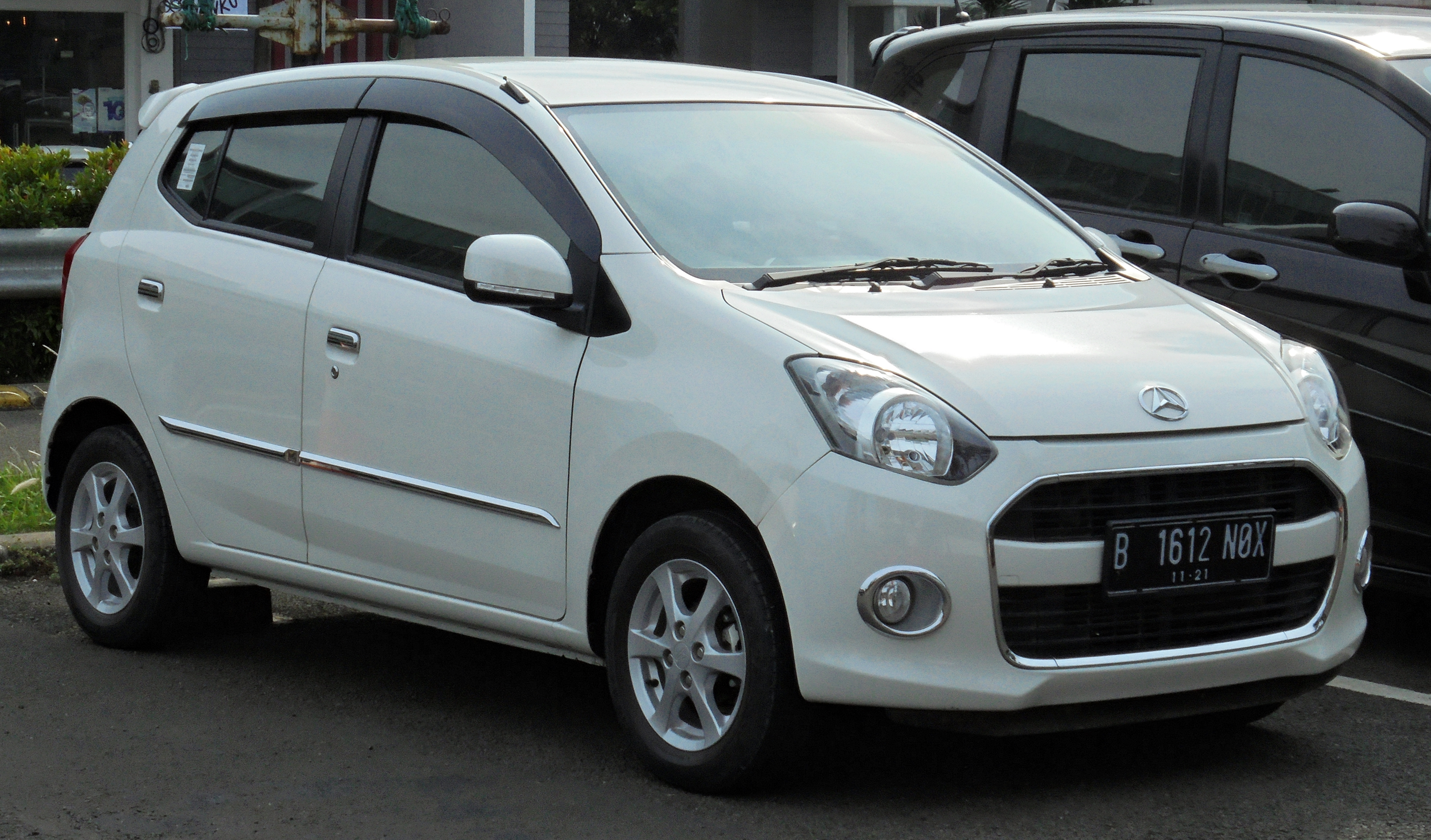 2016 Daihatsu Ayla 1.0 X hatchback (B100RS) photographed in South Tangerang, Banten, Indonesia.